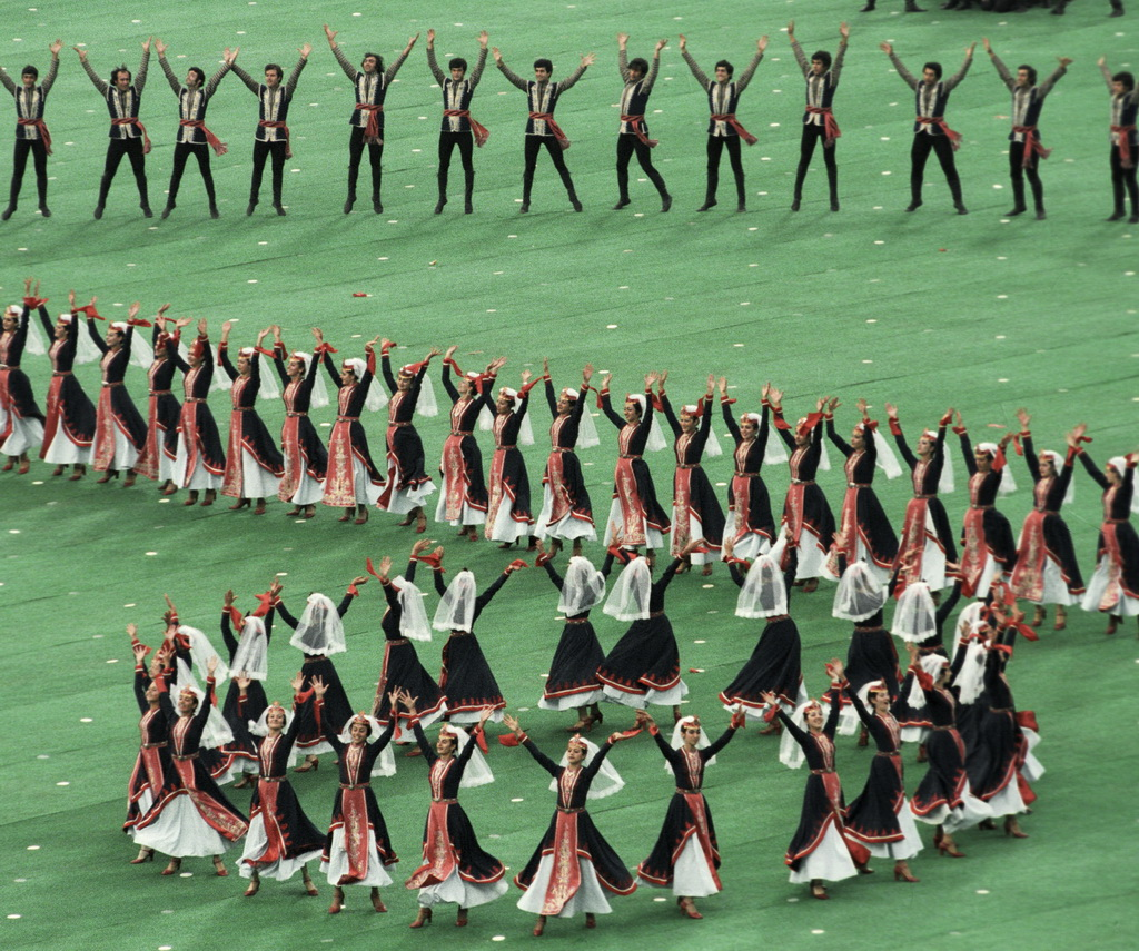 “Opening of XXII Olympics”. The opening ceremony of the XXII Olympics. Moscow, 1980. A piece of the dancing suite "People's Friendship".